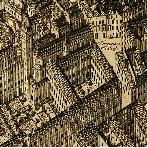 Alter Ramhof Weihburggasse